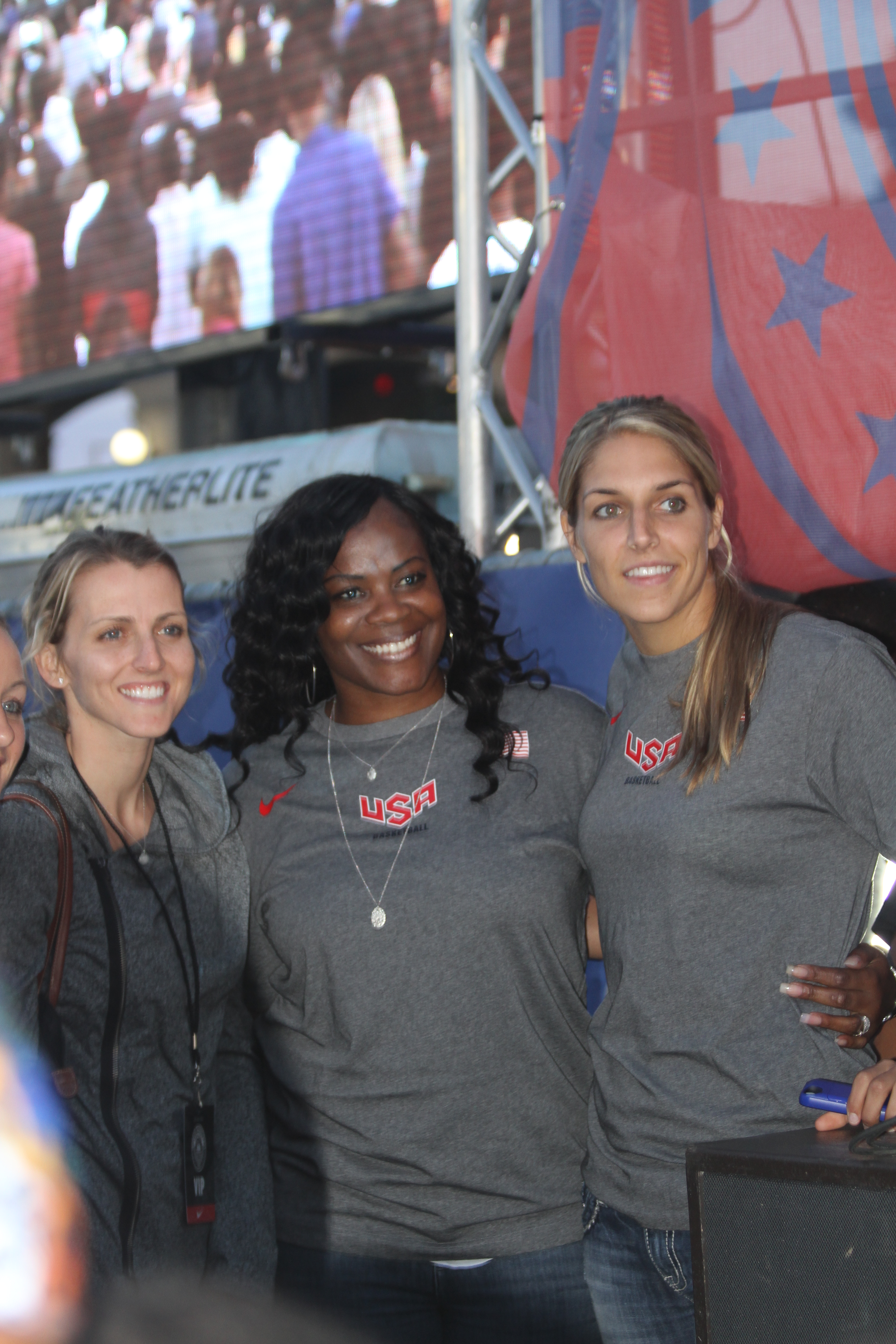 unknown, Cheryl Swoopes, Elena Delle Donne at the 2014 World Basketball Festival